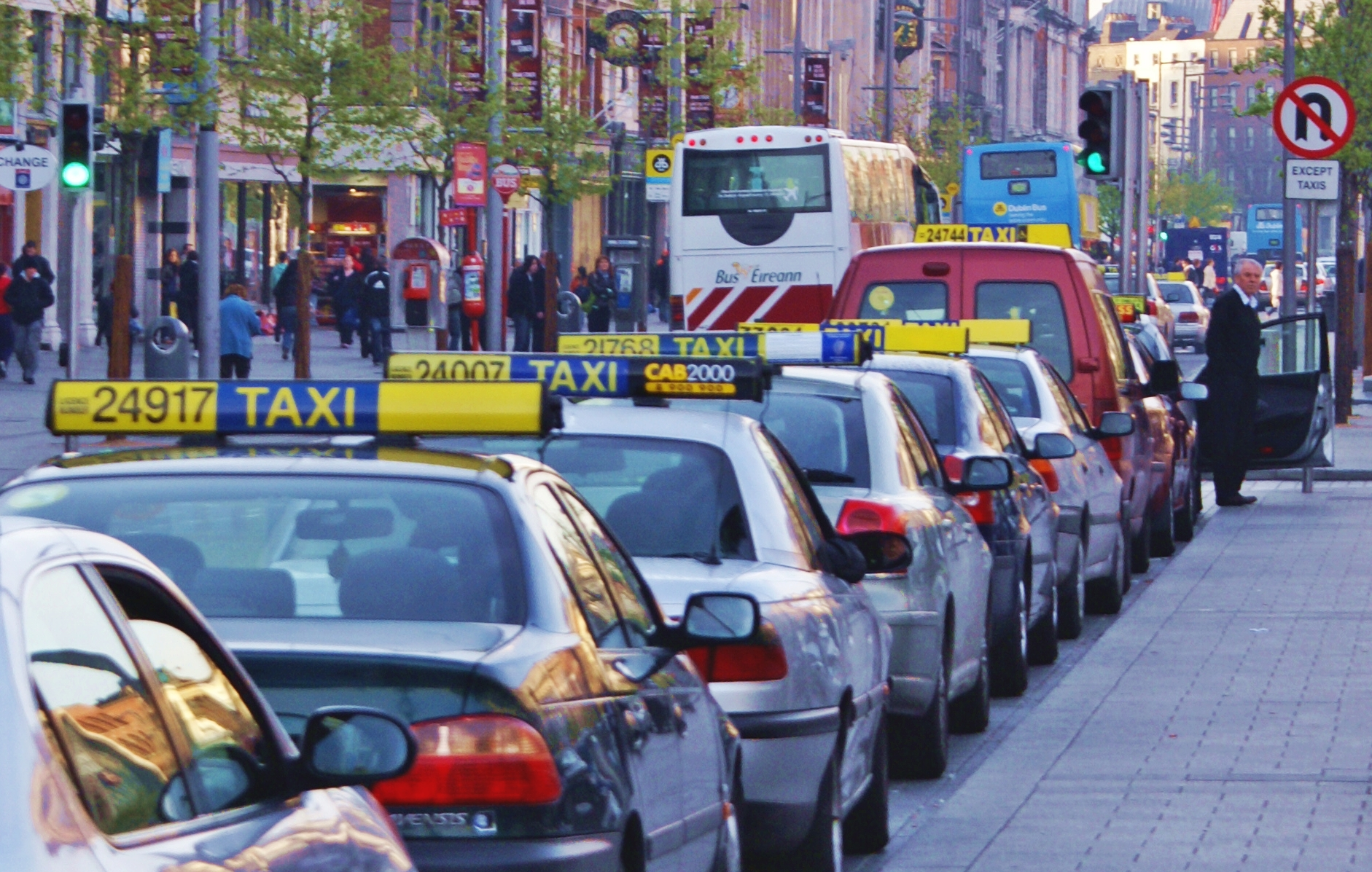 Taxi rank on O'Connell Street Dublin, Ireland.